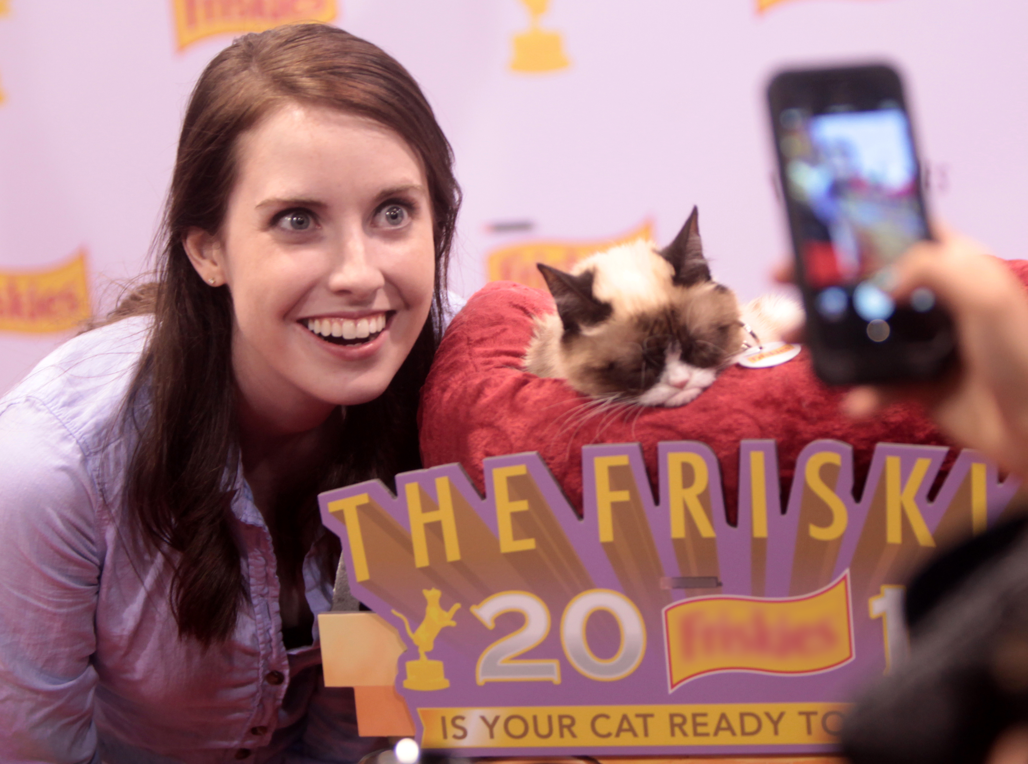 Overly Attached Girlfriend and Grumpy Cat at the 2014 VidCon on June 28, 2014.